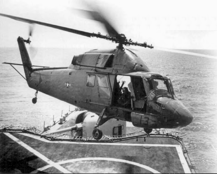 A U.S. Navy Kaman UH-2A/B Seasprite from Helicopter Combat Support Squadron HC-7 Seadevils lifts off from the guided missile cruiser USS Sterett (DLG-31) in the Gulf of Tonkin.